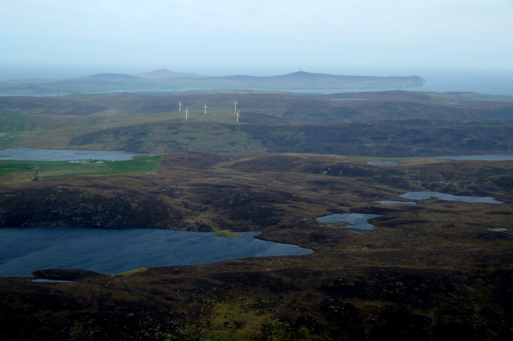 Loch of Ustaness and Setter Hill, Tingwall, from the air